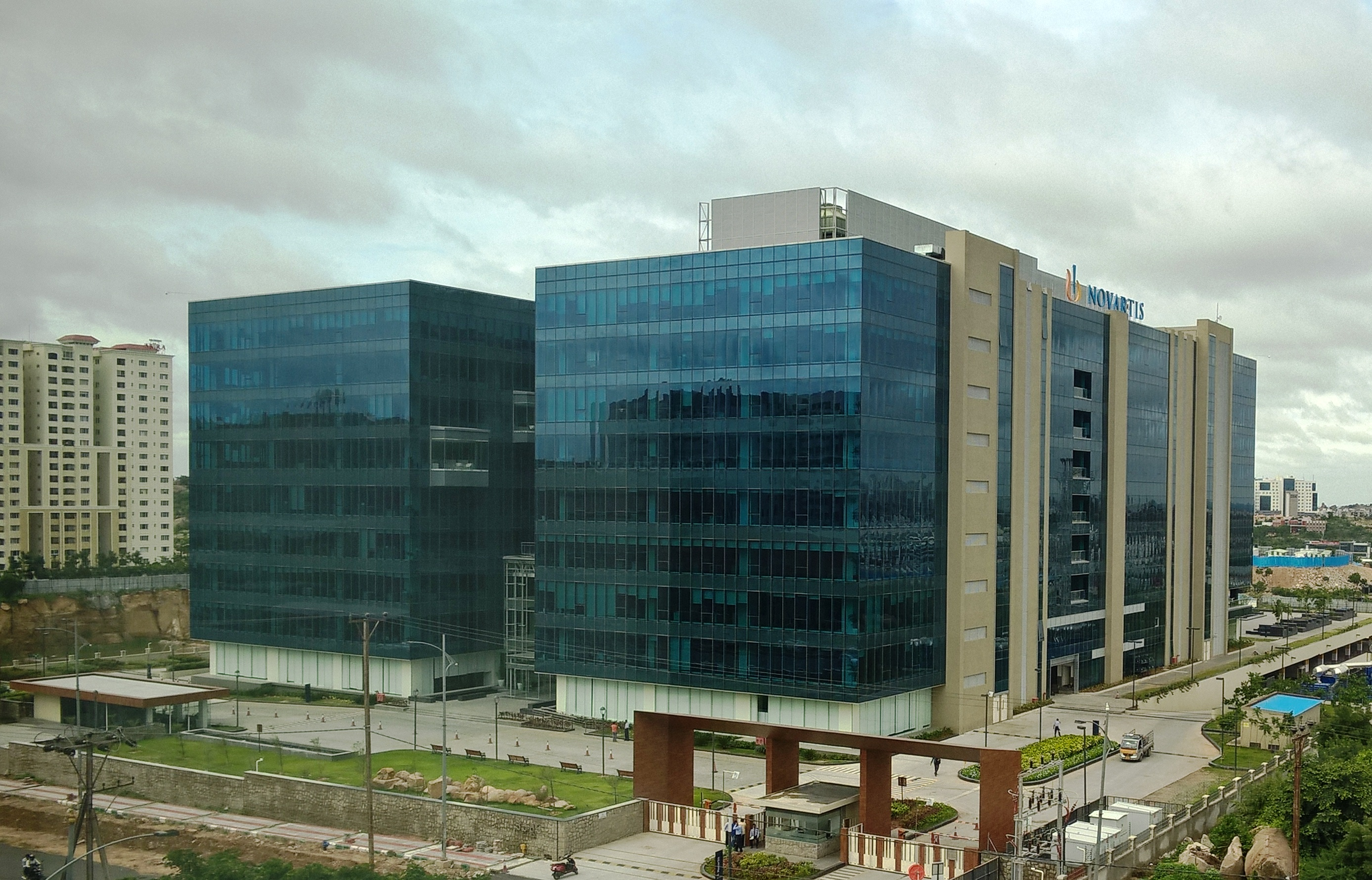 Novartis Hyderabad office